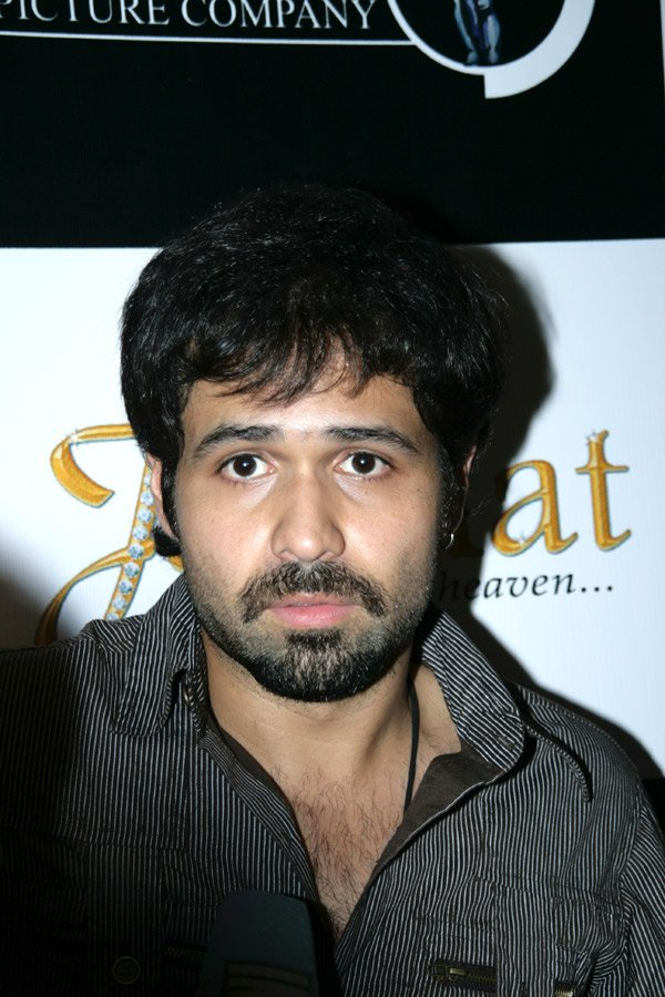 Emraan Hashmi at the Percept Picture Company and Vishesh Films' press conference.